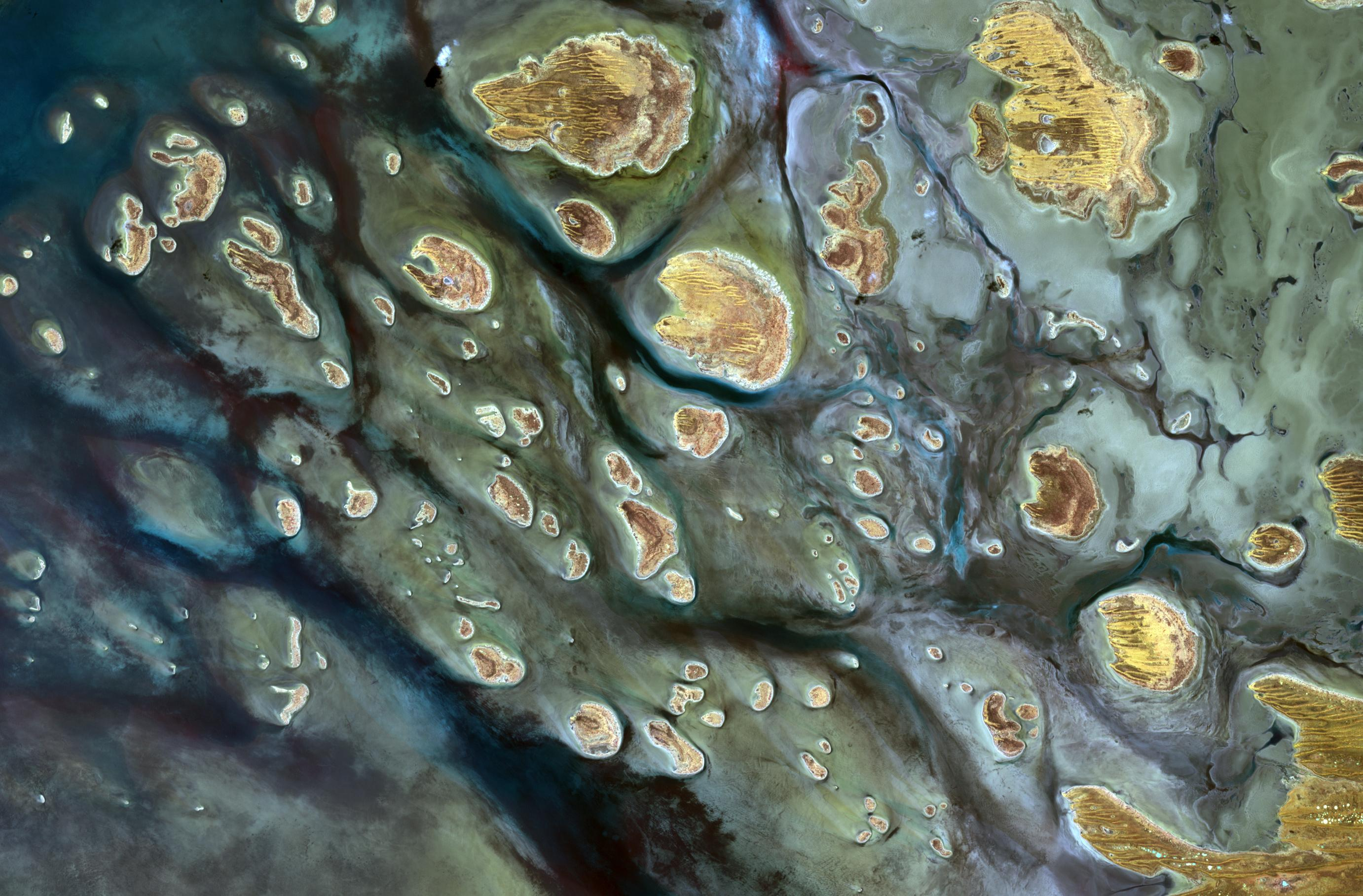 Lake Mackay is the largest of hundreds of ephemeral lakes scattered throughout Western Australia and the Northern Territory, and is the second largest lake in Australia. The darker areas indicate some form of desert vegetation or algae, moisture within the soils, and lowest elevations where water pools. The image was acquired on September 19, 2010 and covers an area of 27 x 41 km. With its 14 spectral bands from the visible to the thermal infrared wavelength region and its high spatial resolution of 15 to 90 meters (about 50 to 300 feet), ASTER images Earth to map and monitor the changing surface of our planet. ASTER is one of five Earth-observing instruments launched Dec. 18, 1999, on Terra. The instrument was built by Japan's Ministry of Economy, Trade and Industry. A joint U.S./Japan science team is responsible for validation and calibration of the instrument and data products. The broad spectral coverage and high spectral resolution of ASTER provides scientists in numerous disciplines with critical information for surface mapping and monitoring of dynamic conditions and temporal change. Example applications are: monitoring glacial advances and retreats; monitoring potentially active volcanoes; identifying crop stress; determining cloud morphology and physical properties; wetlands evaluation; thermal pollution monitoring; coral reef degradation; surface temperature mapping of soils and geology; and measuring surface heat balance. The U.S. science team is located at NASA's Jet Propulsion Laboratory, Pasadena, Calif. The Terra mission is part of NASA's Science Mission Directorate, Washington, D.C. More information about ASTER is available at Image Credit: NASA/GSFC/METI/ERSDAC/JAROS, and U.S./Japan ASTER Science Team